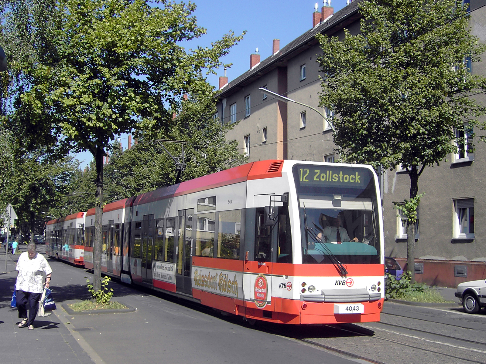 Bombardier Flexity Swift K4000 tram in Köln (Cologne)